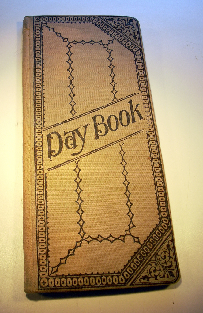 19th Century Business Day Book